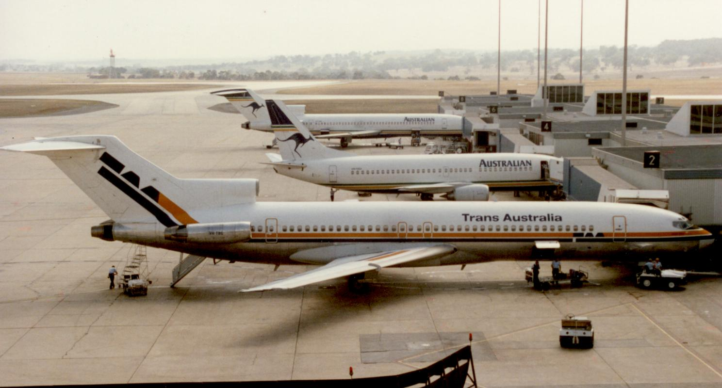 Boeing 727-276 VH-TBG of Trans Australia Airlines at Melbourne's Tullamarine AIRPORT